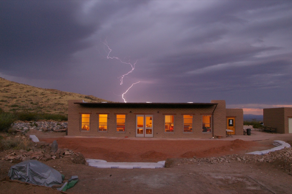 description:An October storm over the Diamond Mountain temple. photographer: Diamond Mountain photographer location: Bowie, AZ photographer_url: [1] flickr_url: [2]